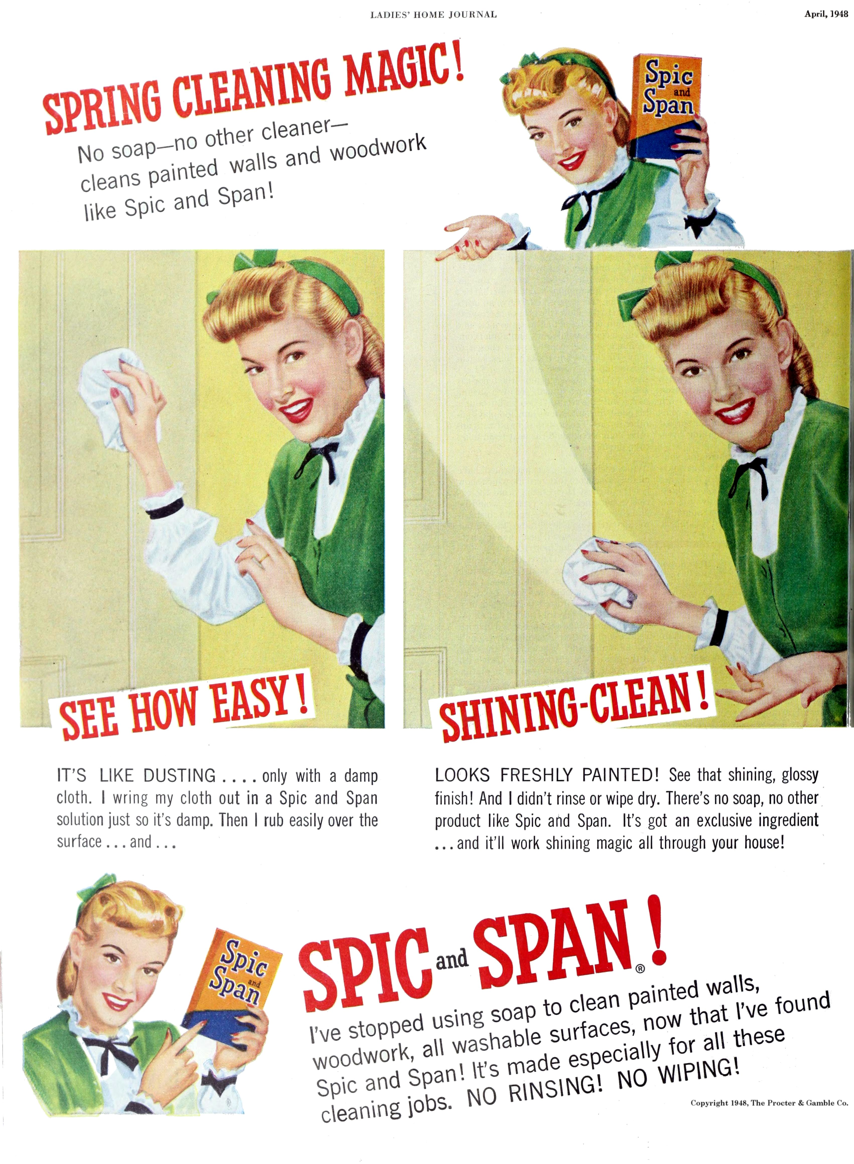 Title: The Ladies' home journal Year: 1889 (1880s) Authors: Wyeth, N. C. (Newell Convers), 1882-1945 Subjects: Women's periodicals Janice Bluestein Longone Culinary Archive Publisher: Philadelphia : (s.n.) Text Appearing Before Image: -a Text Appearing After Image: ITS LIKE DUSTING .... only with a dampcloth. I wring my cloth out in a Spic and Spansolution just so its damp. Then I rub easily over thesurface... and ... LOOKS FRESHLY PAINTED! See that shining, glossyfinish! And I didnt rinse or wipe dry. Theres no soap, no otherproduct like Spic and Span. Its got an exclusive ingredient...and itll work shining magic all through your house! v«